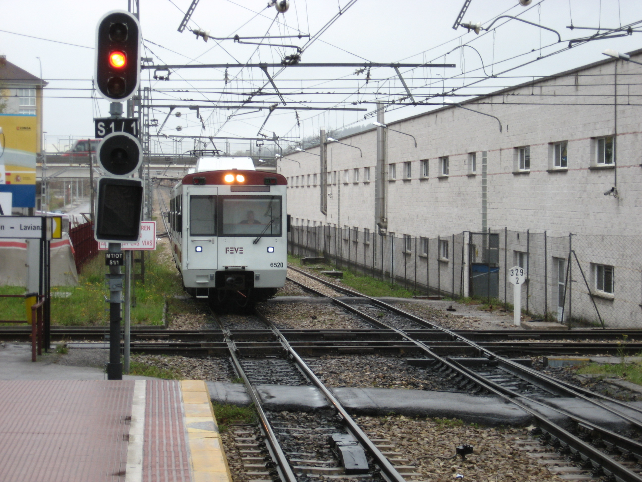 At El Berrón, the lines F5 Gijón Laviana and the main line to Santander cross each other at the level. The lines are connected with each other with 4 curves. 2 off wich have their own platform. There is also a FEVE workplace there.